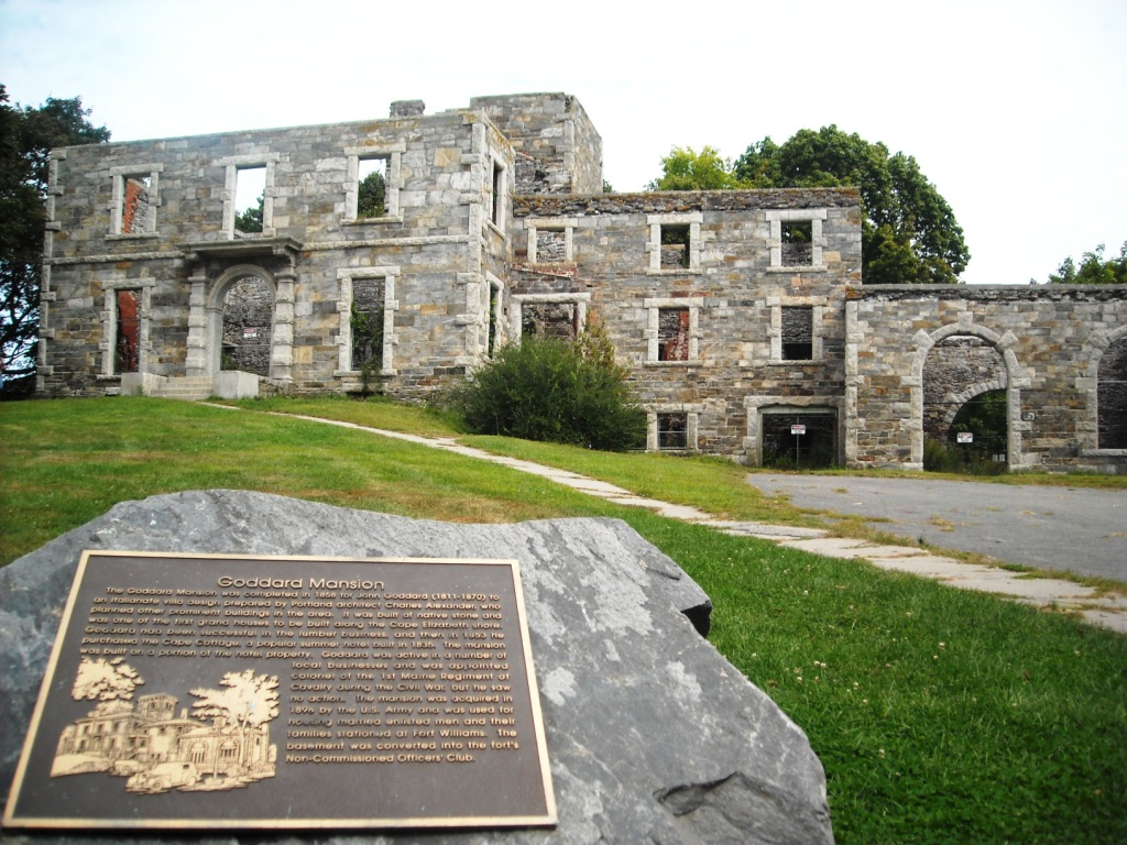 Portland Headlight, Portland Head off Shore Rd. Cape Elizabeth